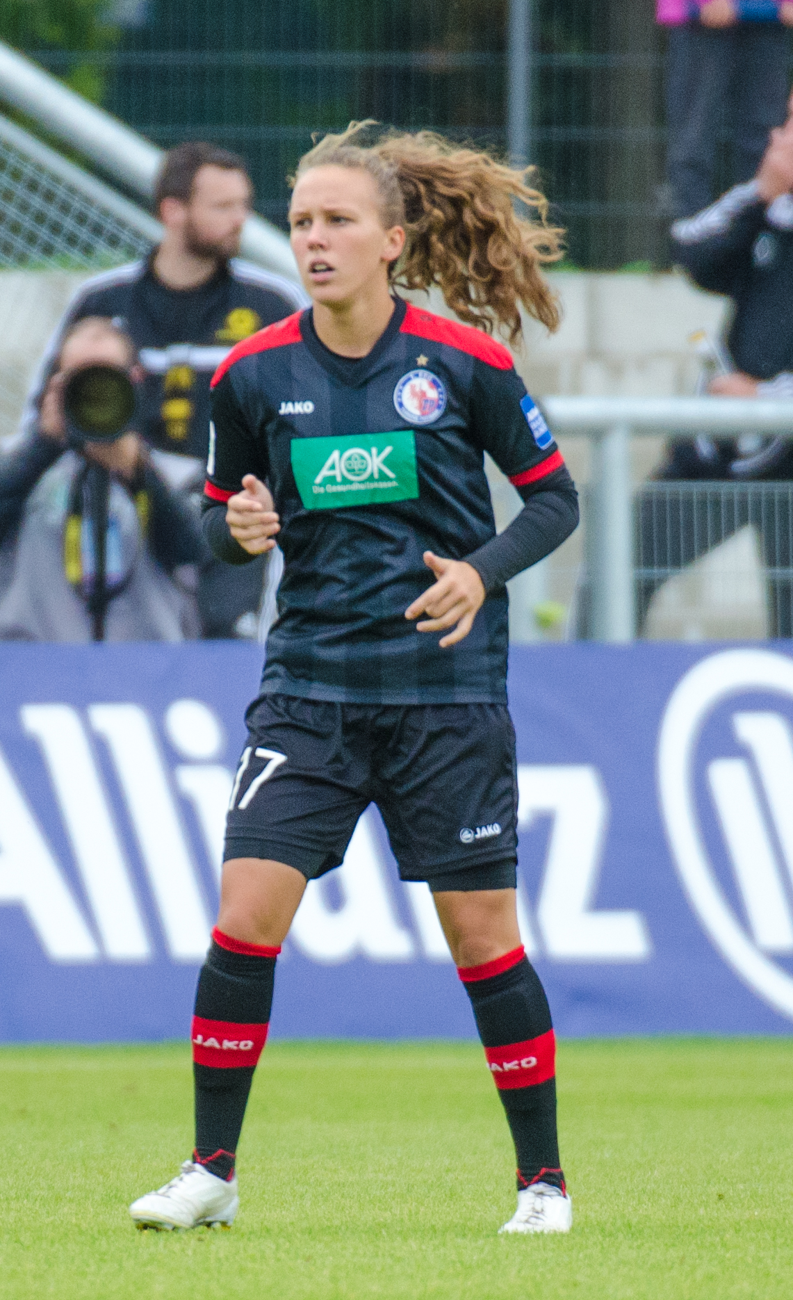 Match of the German Women's Football Bundesliga between 1.FFC Frankfurt and 1. FFC Turbine Potsdam, 2015-09-13